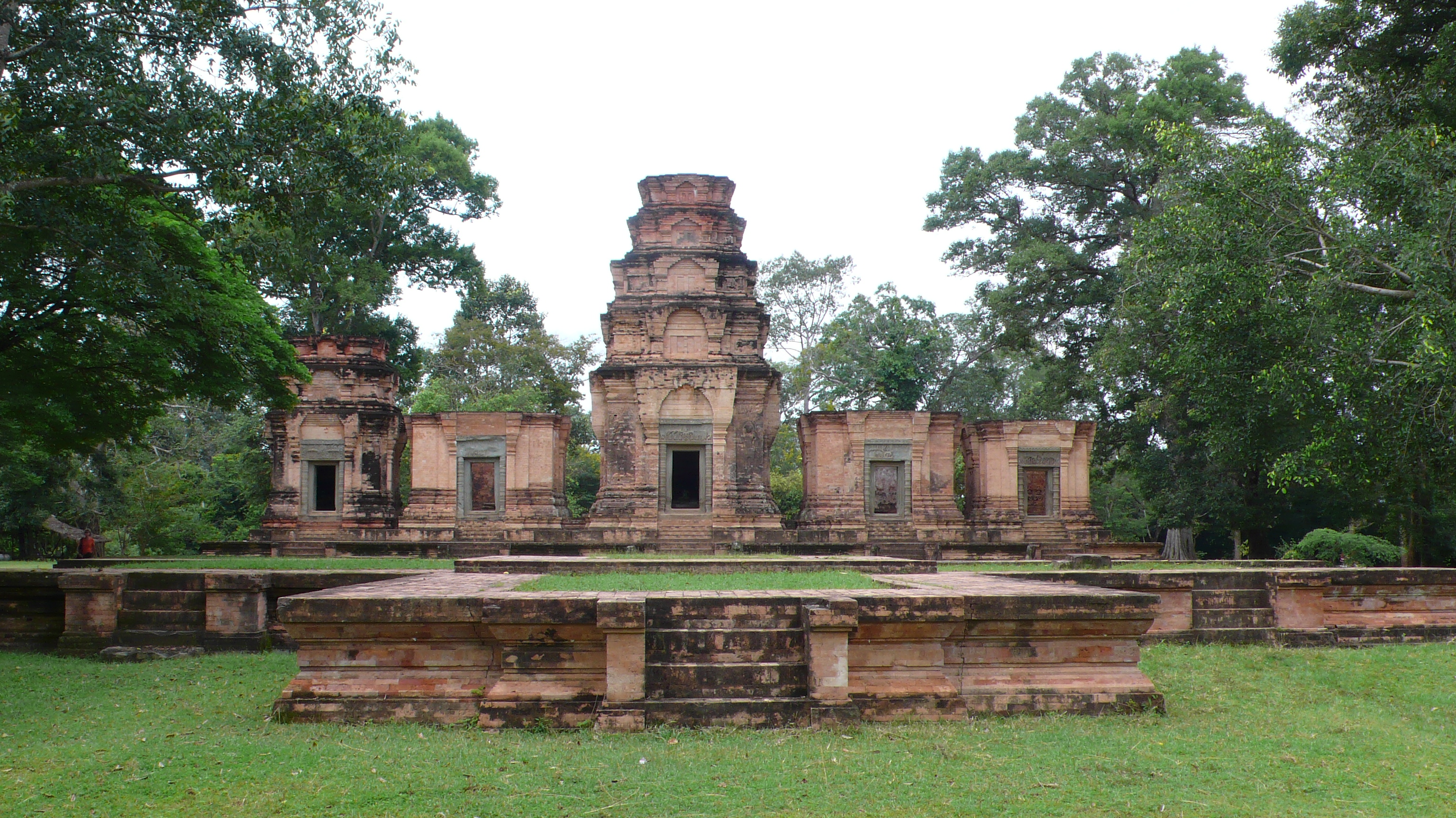 It looks like this temple could have been much bigger long ago when all the walls were standing, but now it's simple and small.